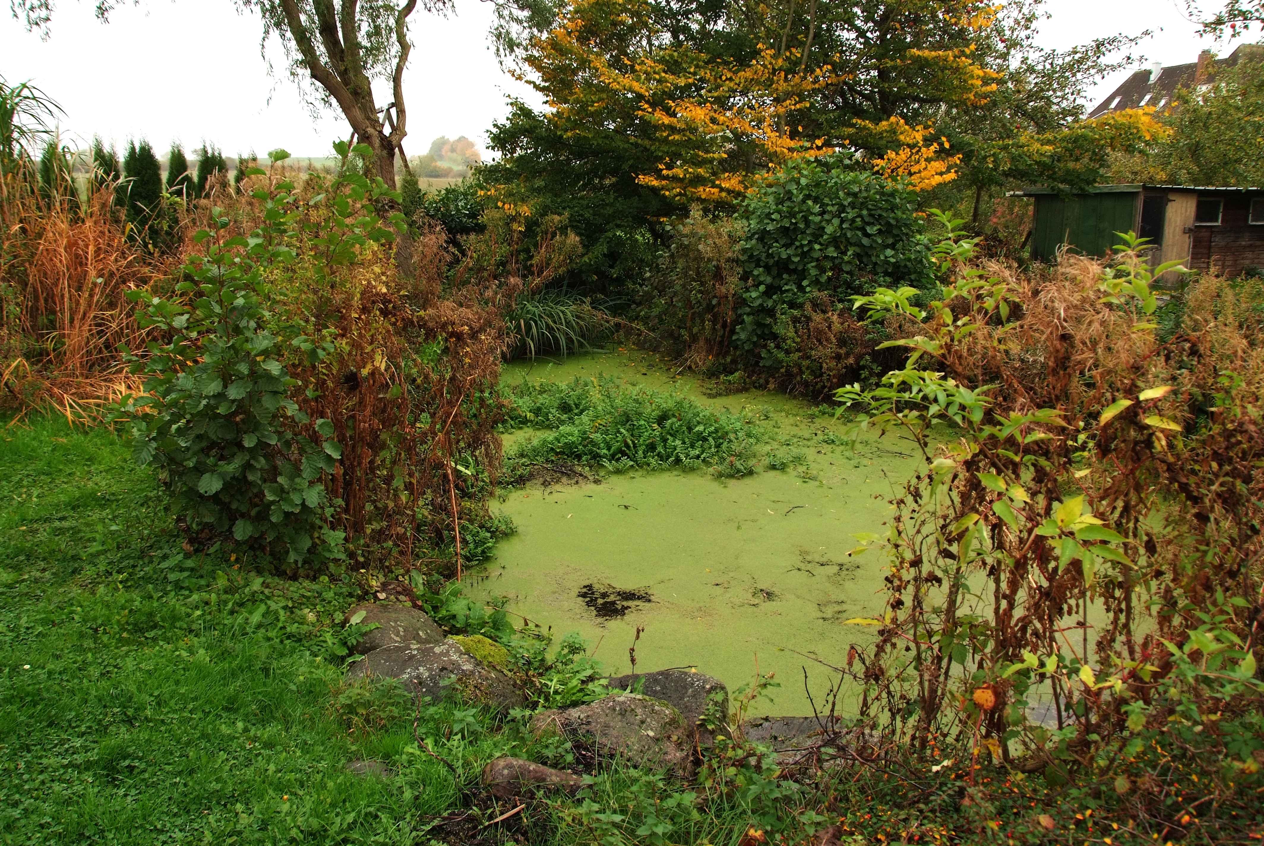 The Trave spring pool at Gießelrade in the community Ahrensbök